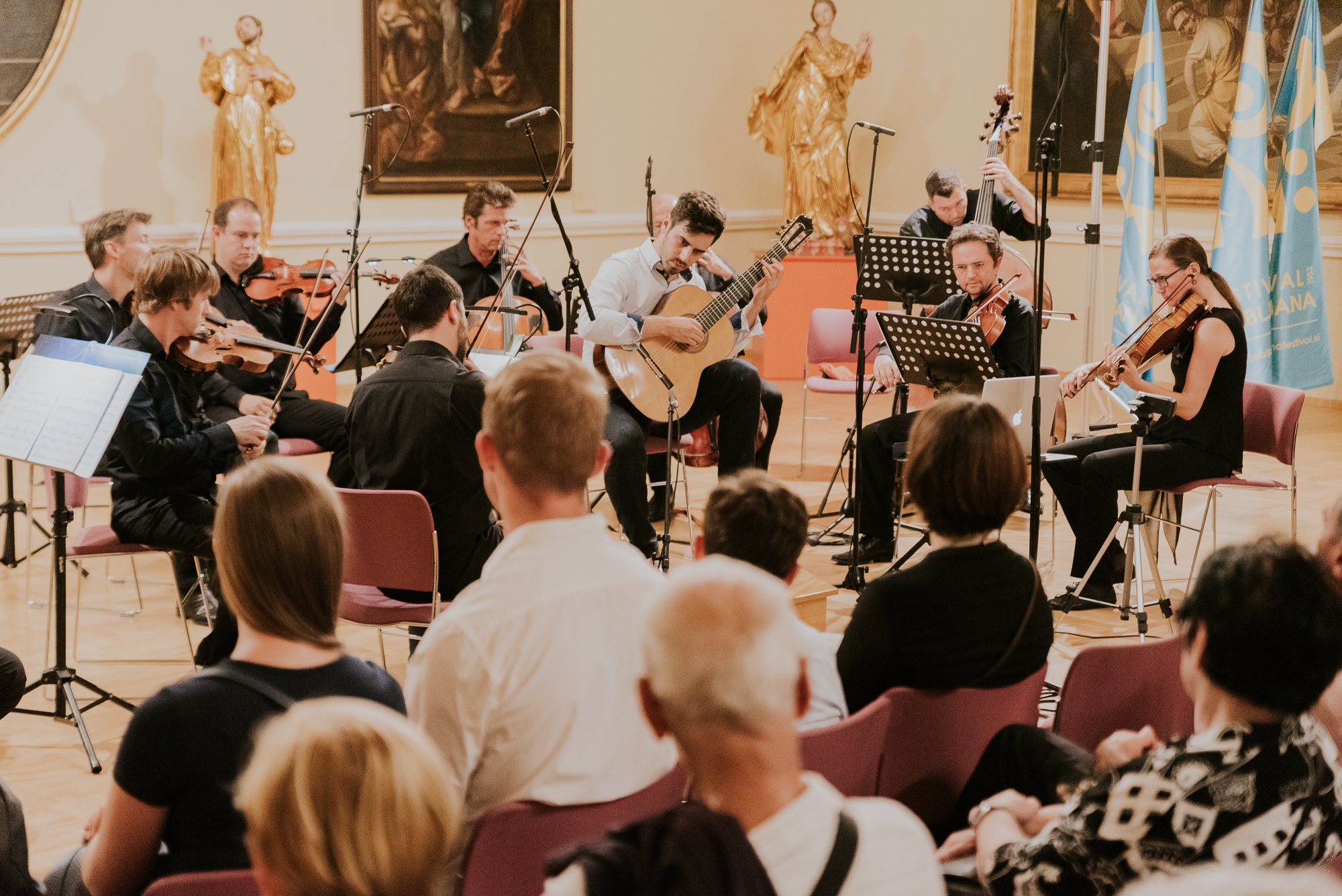 Grgic performing with Slovenian Philharmonic Chamber Orchestra